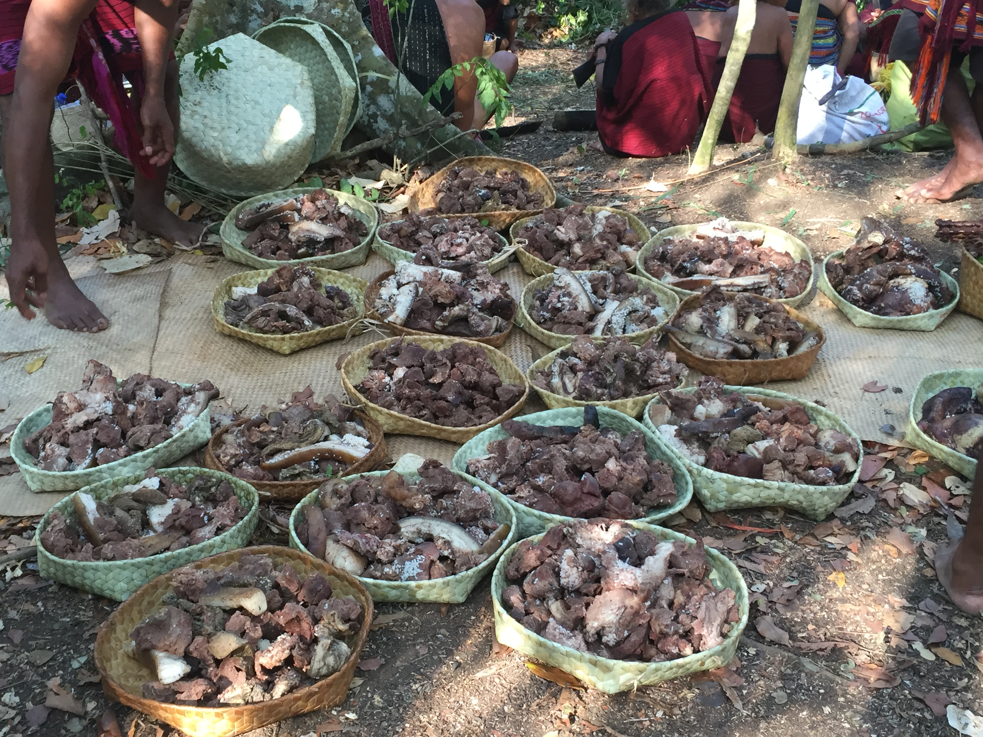 Baha Liurai. The sacrifice divided.